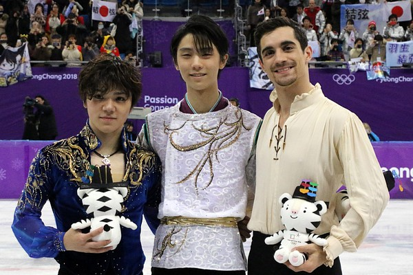 The men’s single podium at 2018 Winter Olympic Games From left Shoma Uno (2nd),Yuzuru Hanyu-(1st),Javier Fernandez(3rd).